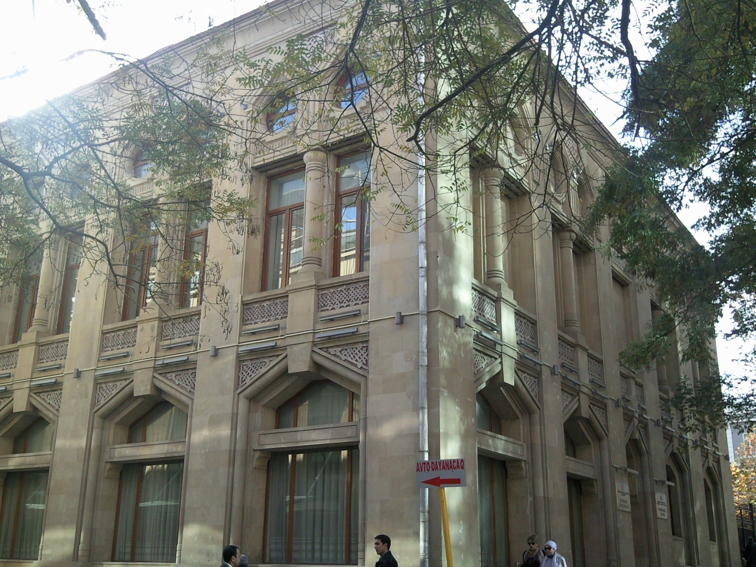 Building of the Central library at Nizami street in Baku.